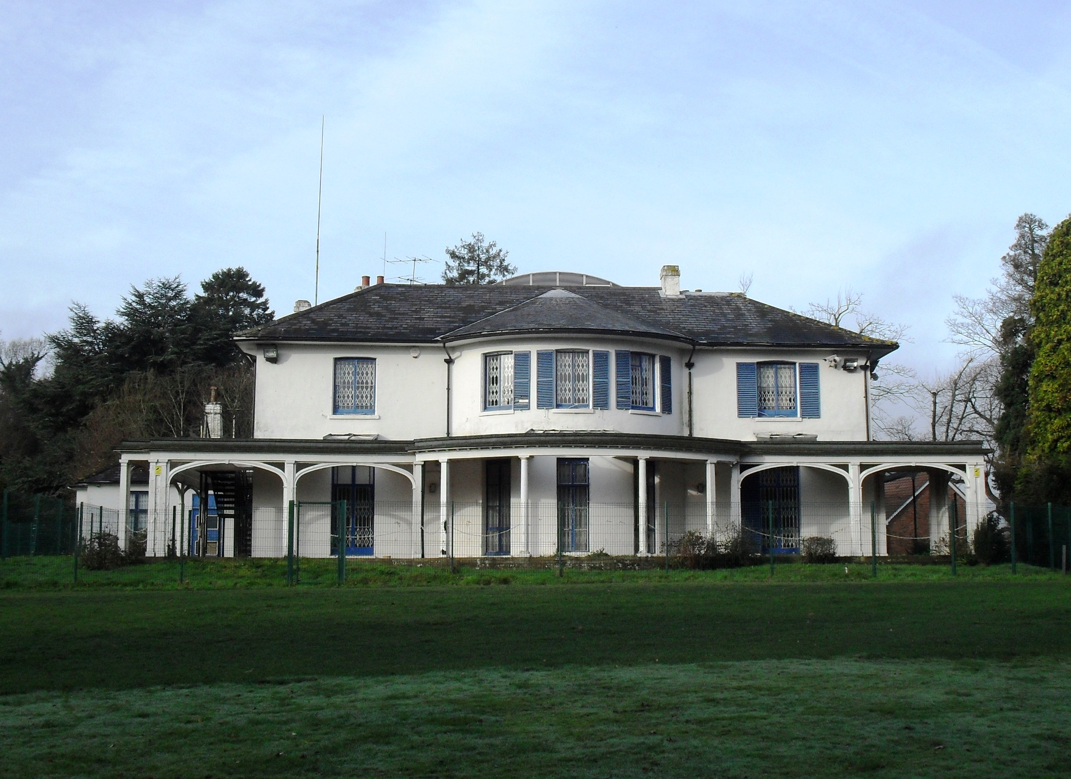 Broadfield House, Broadfield, Crawley, West Sussex, England. Built in the 1830s and extended in the 1860s. Disused as of 2009, but planning permission has been granted for conversion into flats. Listed at Grade II by English Heritage (IoE Code 363333)